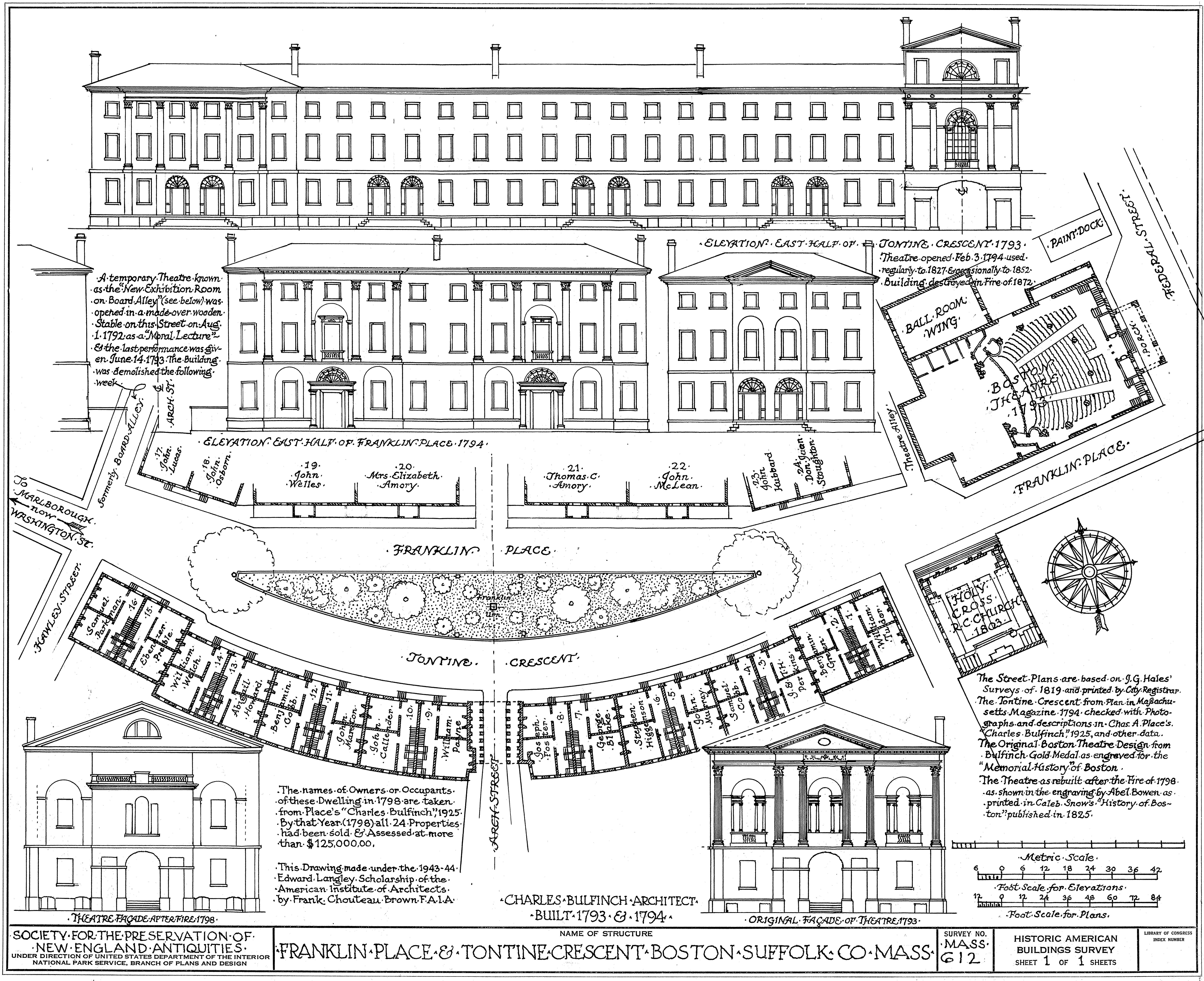 Tontine Crescent, Boston, Massachusetts - Elevation and Plan. Charles Bulfinch, architect. Built 1793-1794; no longer exists. This drawing was made under the direction of the United States Department of the Interior, National Park Service, and hence is not subject to copyright restrictions. This digital image is from the Library of Congress, cropped to remove white space at edges. TITLE: Franklin Place & Tontine Crescent, Franklin Street, Boston, Suffolk County, MA. CALL NUMBER: HABS, MASS,13-BOST,61- REPRODUCTION NUMBER: [See Call Number]. MEDIUM: Measured Drawing(s): 1. DATE: Documentation compiled after 1933. RELATED NAME(S): Bulfinch, Charles. NOTE: Survey number HABS MA-612. Building/structure dates: 1794. SUBJECTS: MASSACHUSETTS--Suffolk County--Boston Rowhouse. COLLECTION: Historic American Buildings Survey (Library of Congress). REPOSITORY: Library of Congress, Prints and Photograph Division, Washington, D.C. 20540 USA. CARD #: MA0453